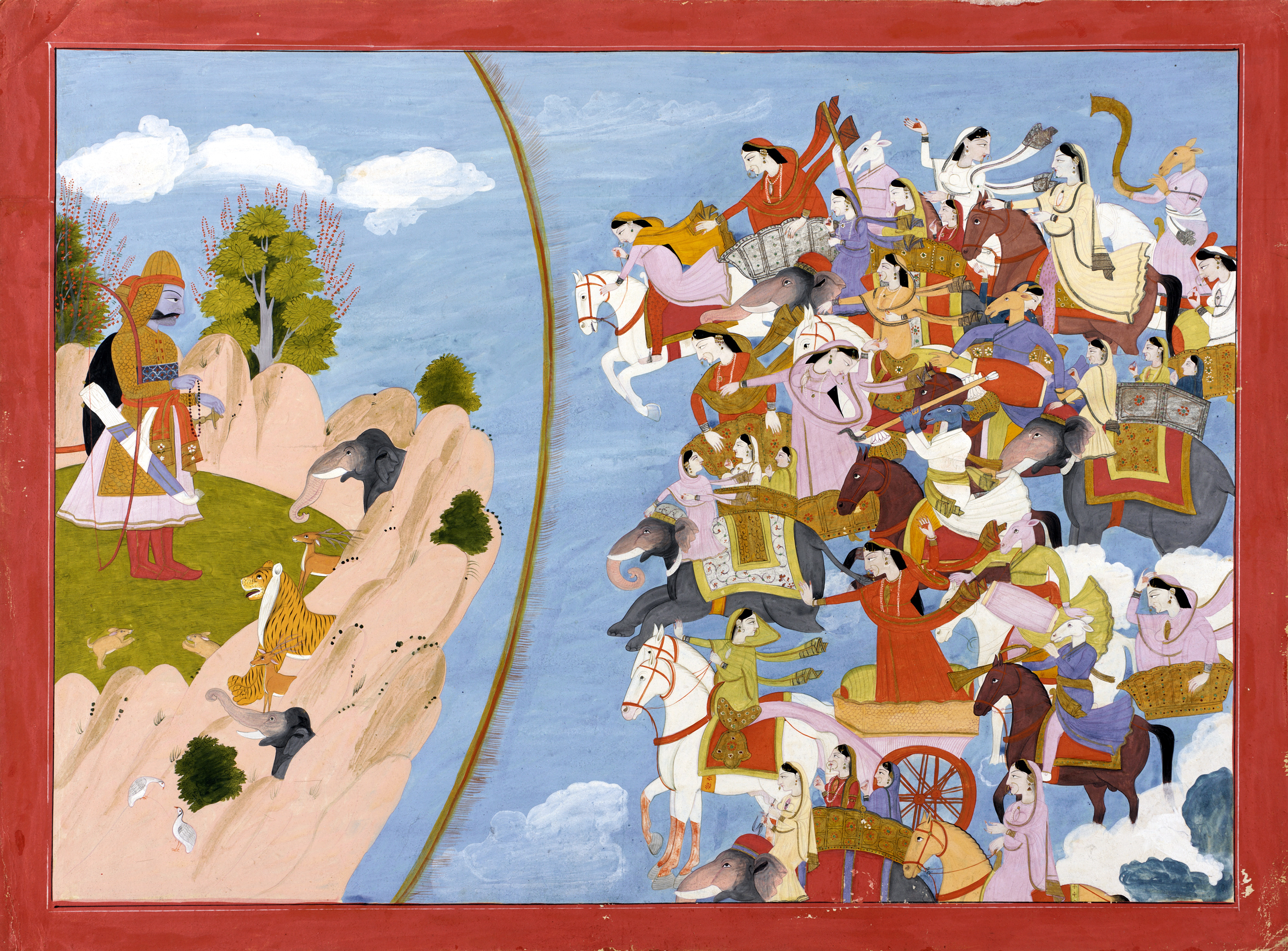 Arjuna and the celestials (maidens and accompanying musicians), folio from a Kirata-arjuna manuscript. Kangra painting.